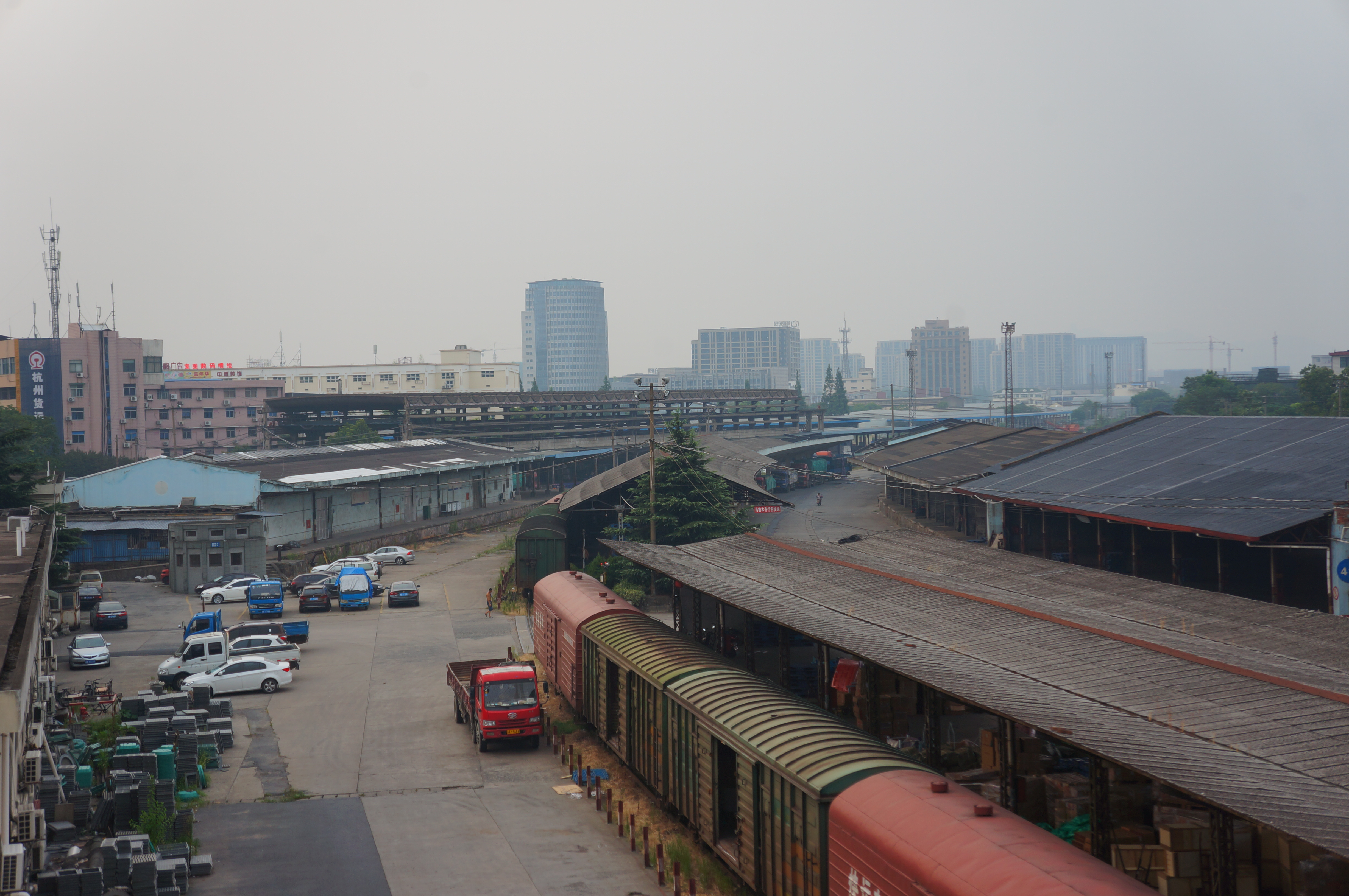 201607 Freight yard of Genshanmen Station1